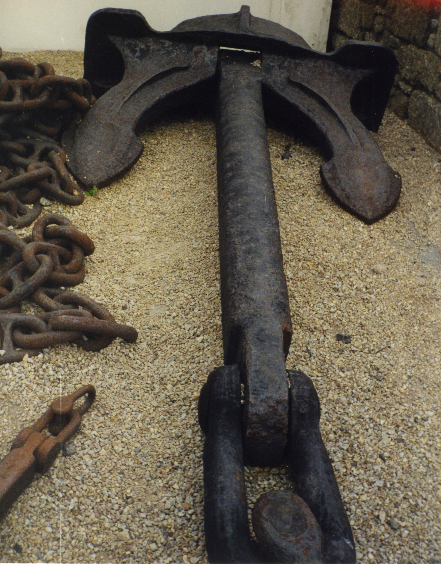 A stockless anchor at Land's End visitor centre, Cornwall, England. Photo taken in 2000 using 35mm film camera. Digitally scanned on 7 November 2009.